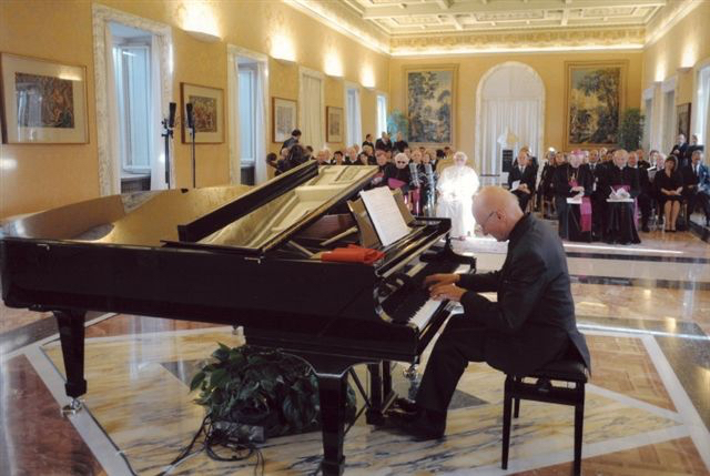 Christoph Cornaro